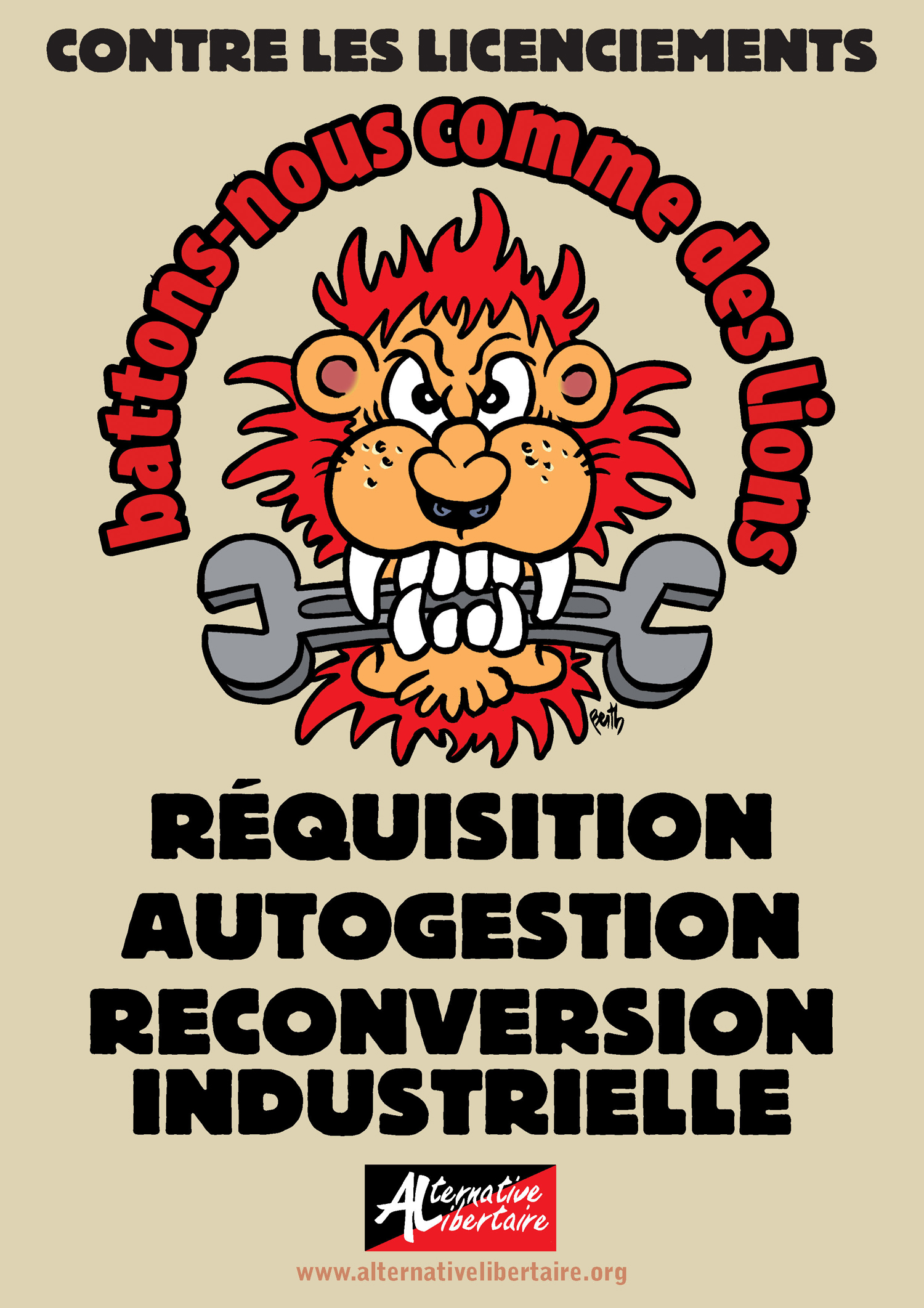 Poster edited by the French anarchist-communist organization Alternative libertaire during the workers fight against the shutdown of the PSA factory in Aulnay-sous-Bois, near Paris.